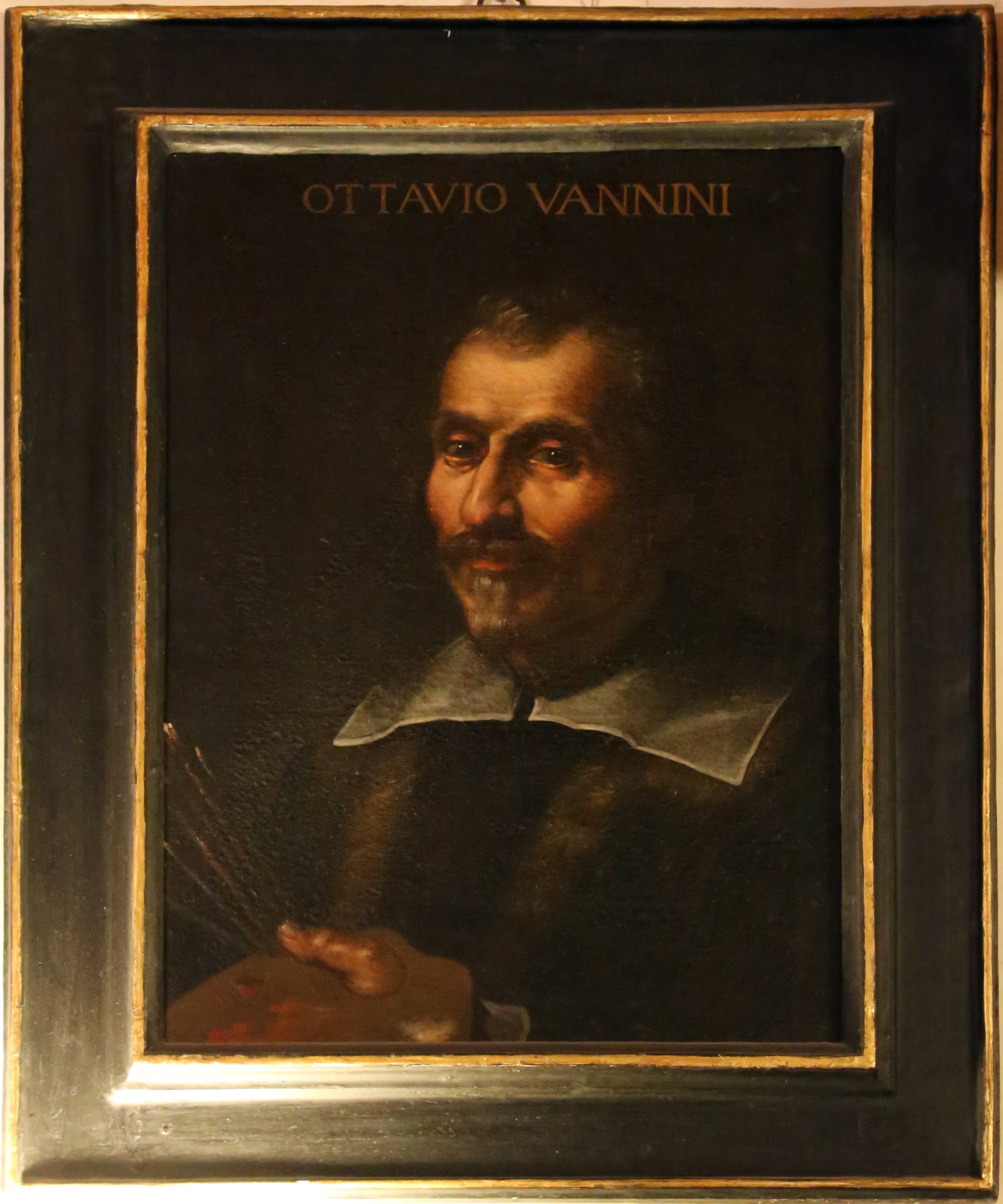 Paintings in the Accademia delle Arti del Disegno (Florence)